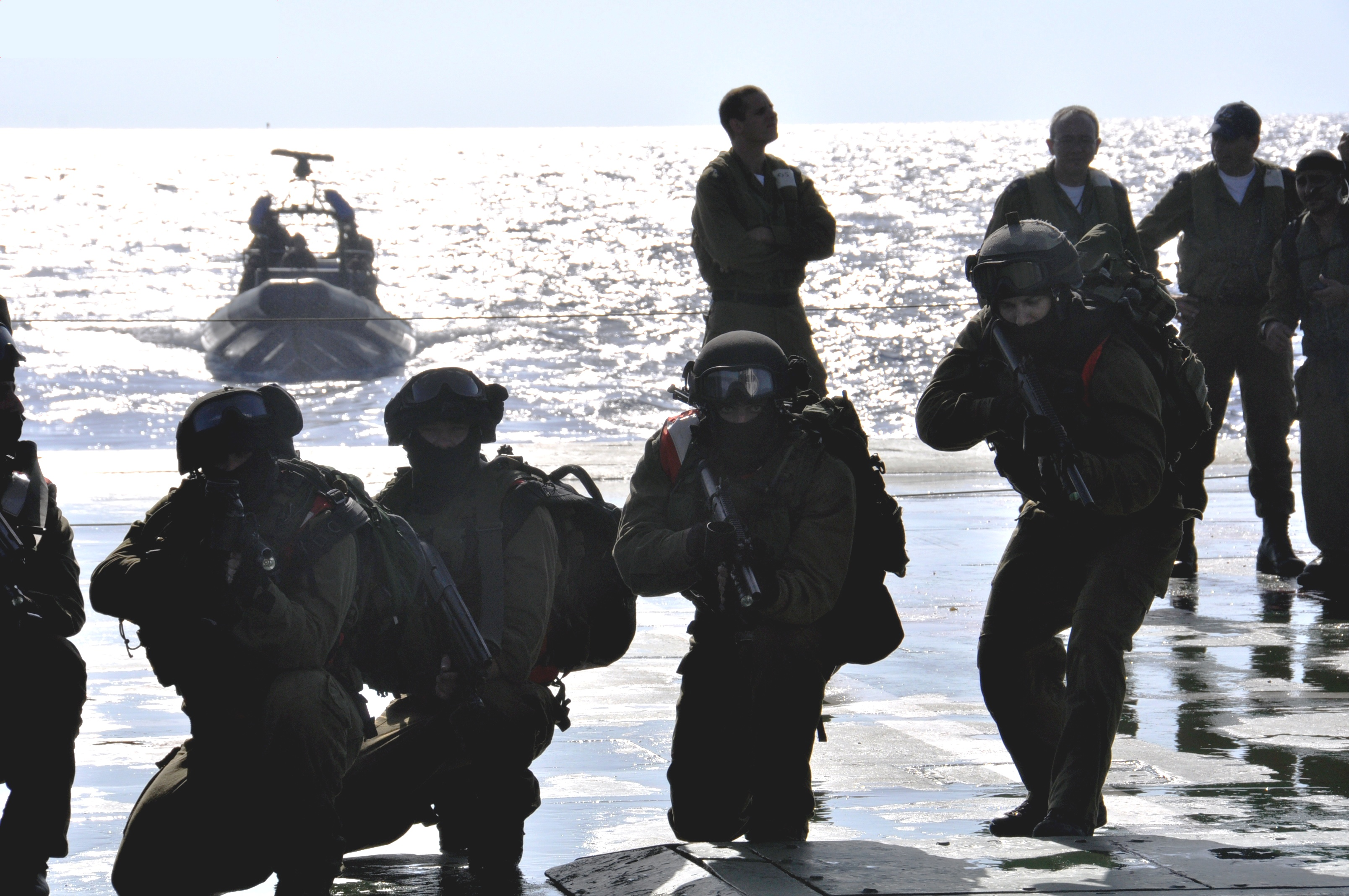 Soldiers of the IDF's elite naval commando unit 'Shayetet 13' are getting ready for a training exercise on a Sa'ar 5-class Corvette of the Israeli Navy. Featured as Photo of the Day on March 22, 2012 The Israel Defense Forces Facebook The Israel Defense Forces blog Follow us on Twitter